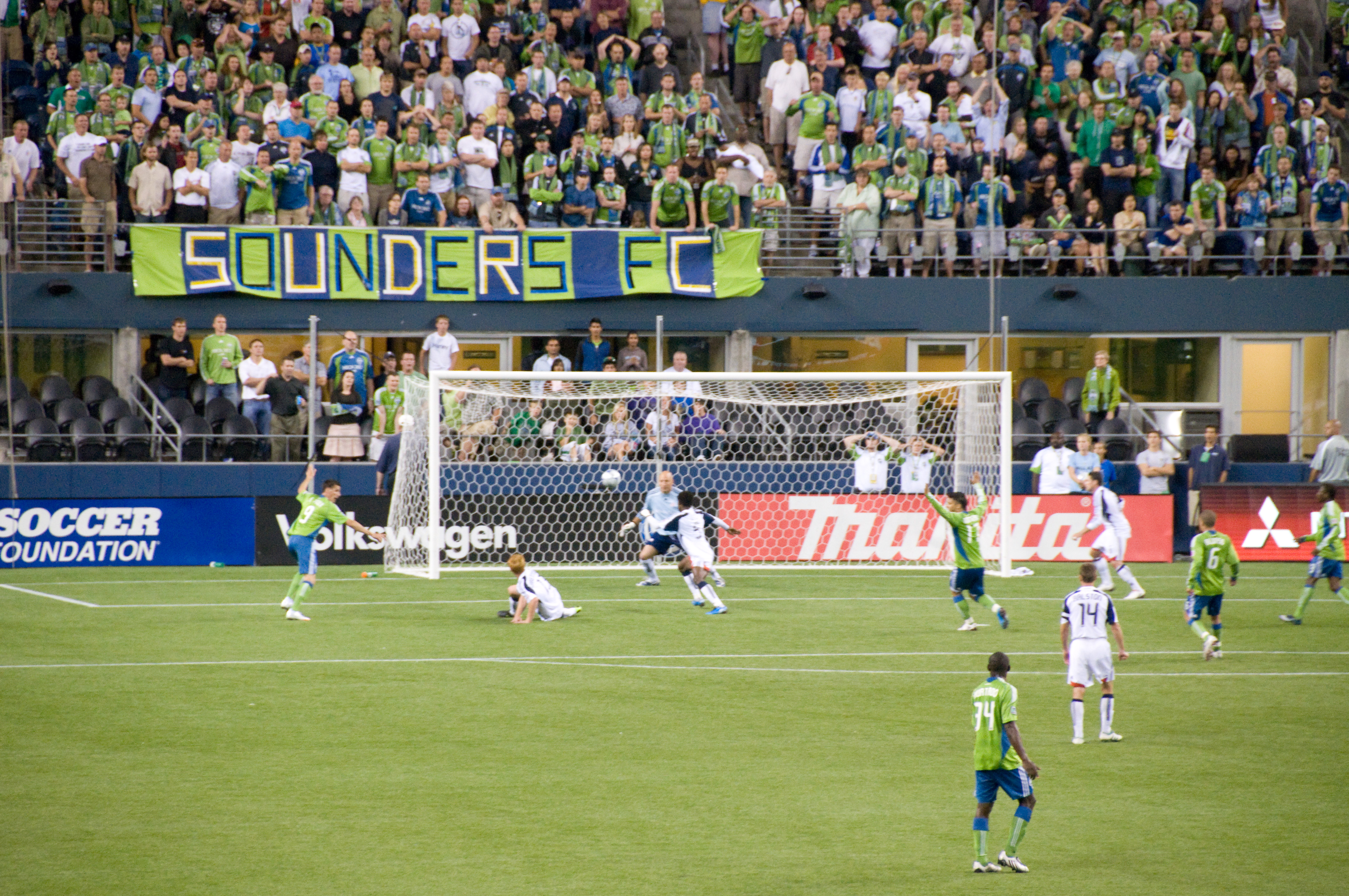 Seattle Sounders vs. New England Revolution at Qwest Field in August 2009.